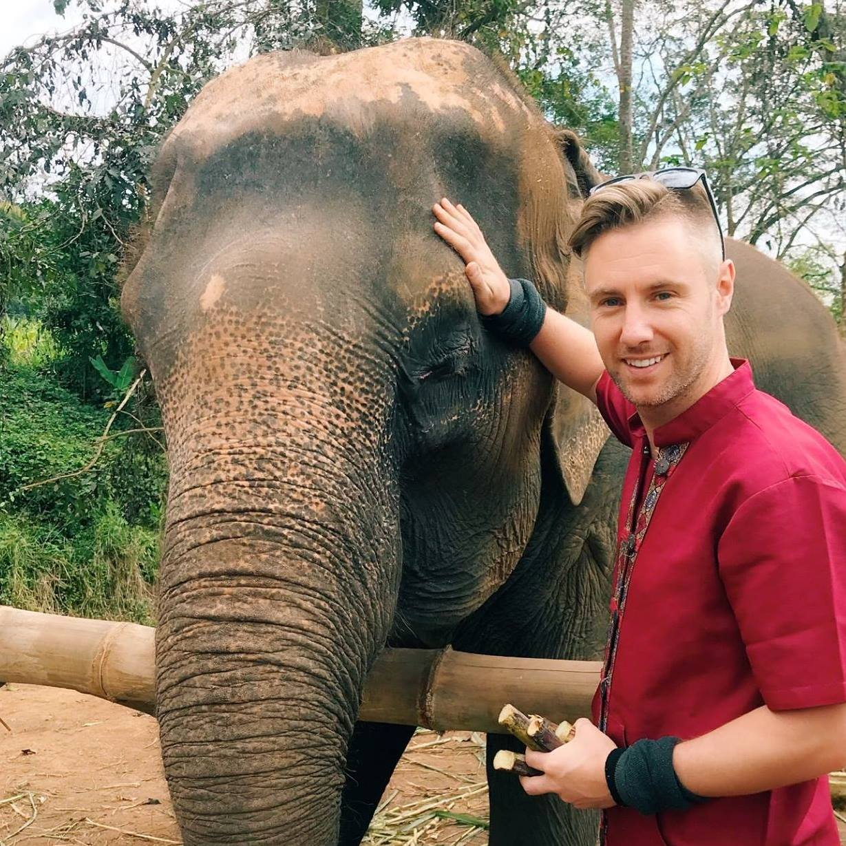 Johnny Ward is a travel blogger. In this picture he's posing with an elephant at a sanctuary in Thailand.